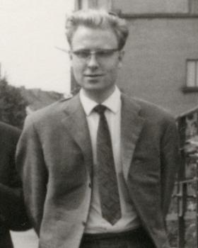 Mathias Gerusel (1963)